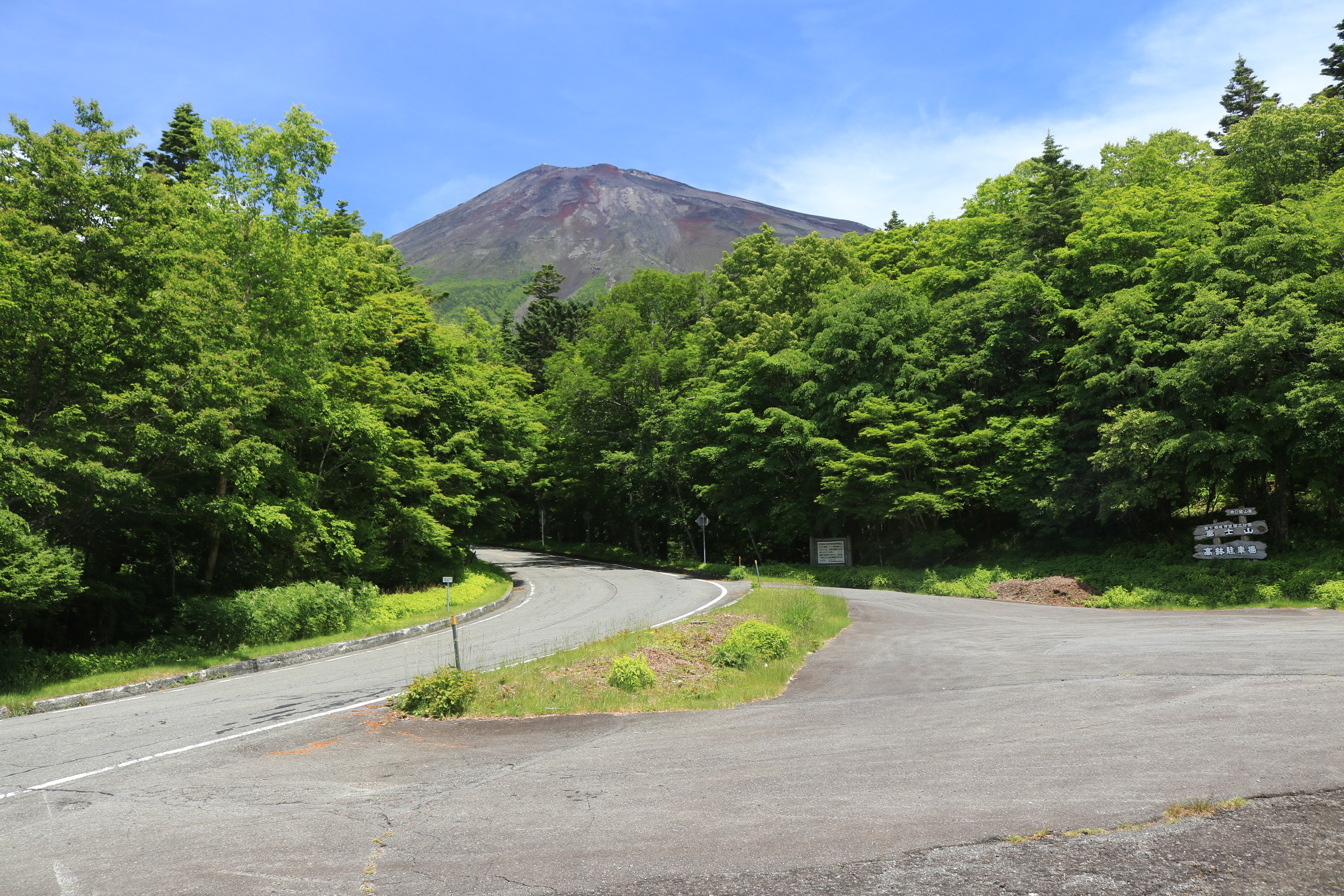 Mount Fuji and Parking of Shizuoka Prefectural Road Route 152 (Fujisan Skyline) in Kitayama, Fujinomiya, Shizuoka Prefecture, Japan.